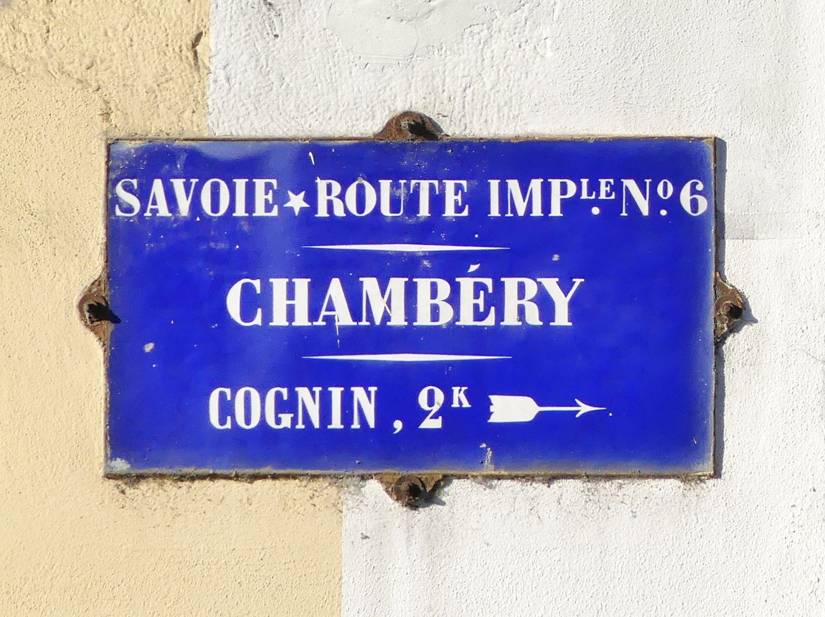 Historical road sign indicating the former French imperial road n°6 during the Second French Empire in the 19th century, in Chambéry, Savoie.